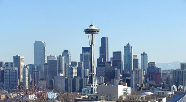 Cropped image of File:Seattleskyline1.jpg, intended for use in List of tallest buildings and structures in Seattle to focus only on the skyline. Original image taken by User:CMLLovesDegus on 24 February 2006. The licensing tag found on its Wikimedia Commons description page is also shown here